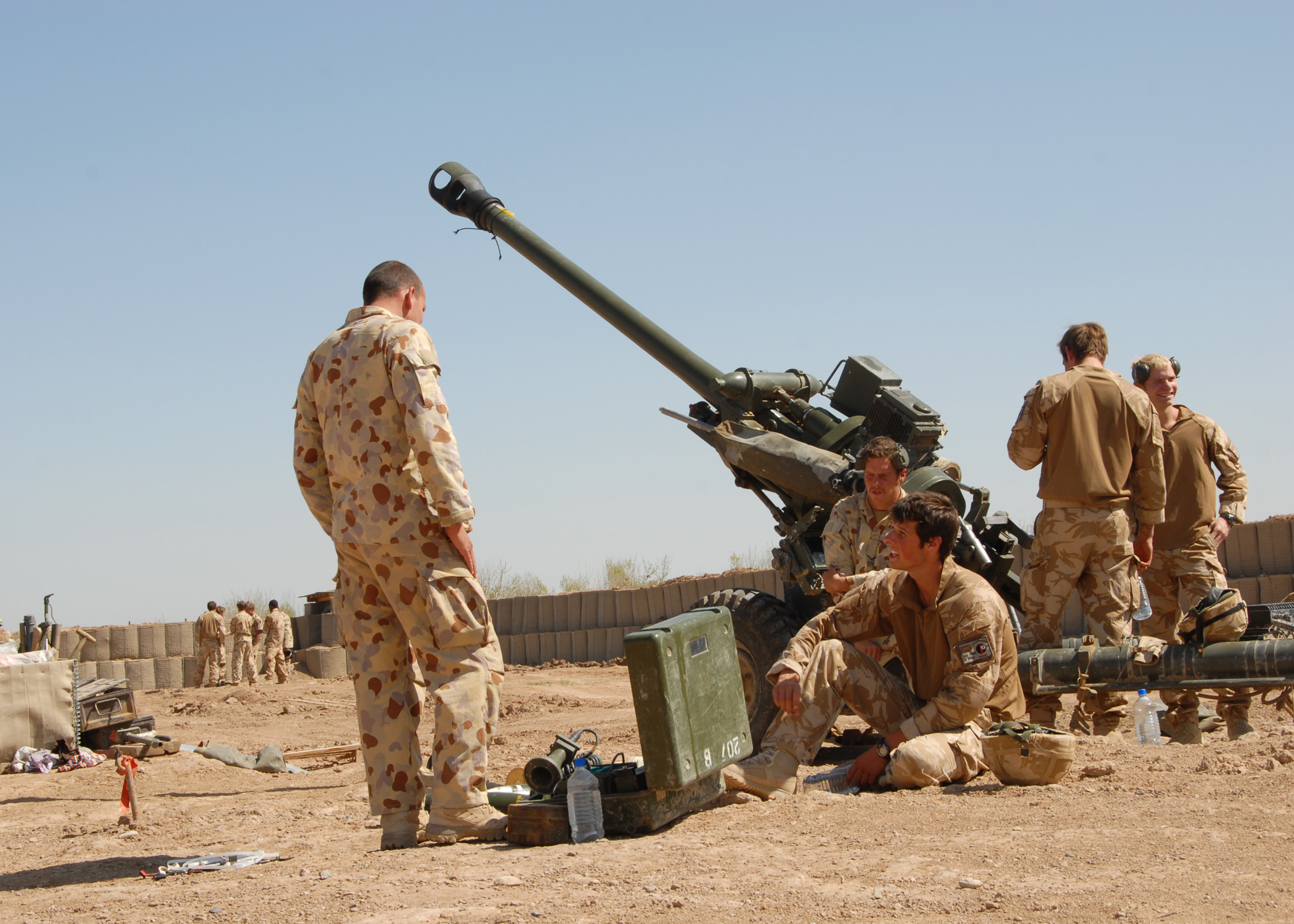 MUSA QAL'EH, Afghanistan--Members of a gunnery team for Charlie Troop 8 ALMA Battery Commando 29 Royal Artillery Regiment (RAR) conduct a firing mission at Patrol Base Silab on March 9, 2009. The 29 RAR, composed of British and Australian gunners, is currently completing it's six month tour and will head back to the U.K. in May. ISAF photo by U.S. Navy Petty Officer 2nd Class Aramis X. Ramirez (RELEASED).